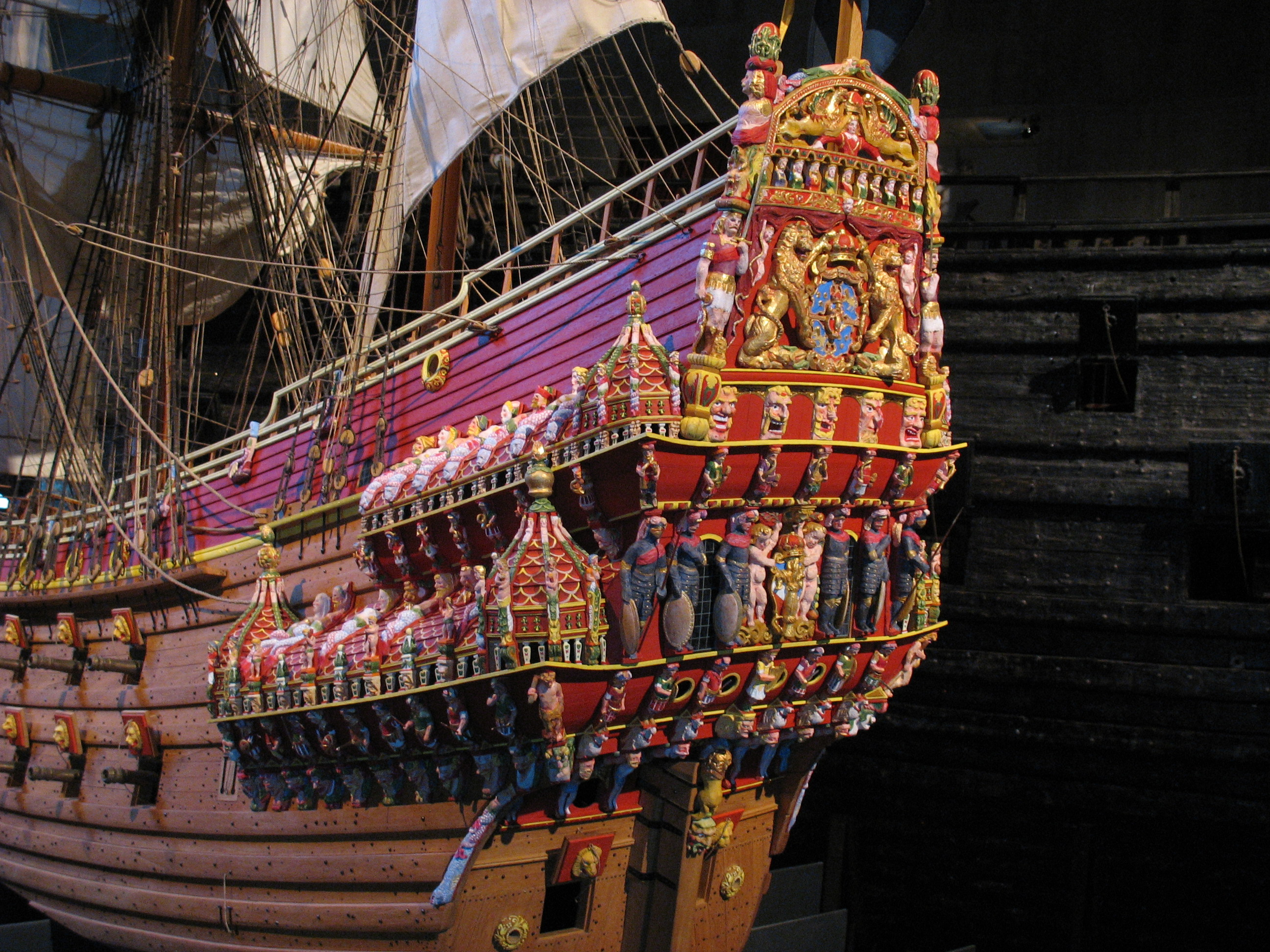 The stern of a 1:10 model of the ship Vasa on display at the Vasa Museum in Stockholm. The photo shows the colors scholars believe were used for the sculptures on the original 17th century ship.